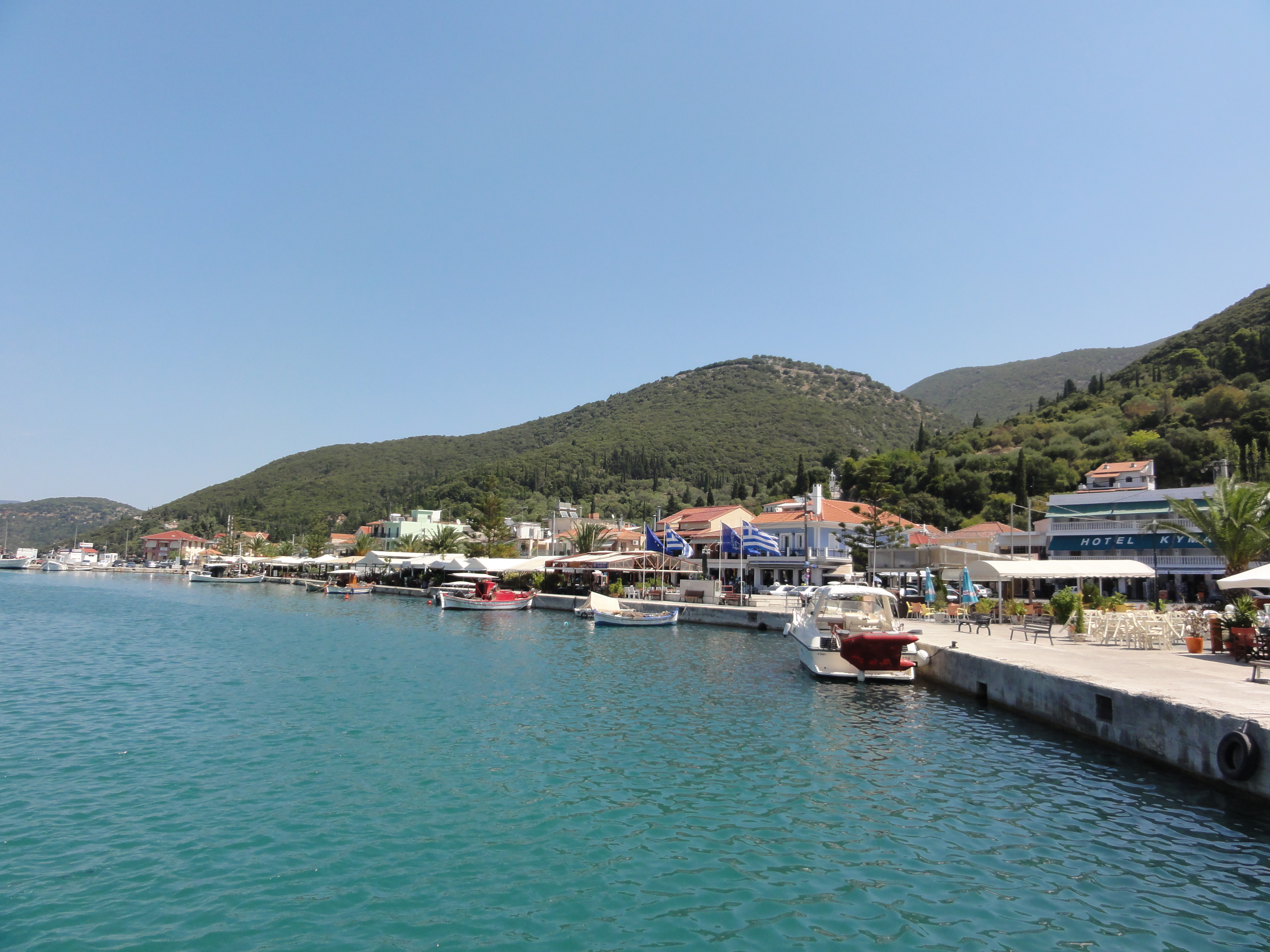 Photographs taken in Kefalonia.